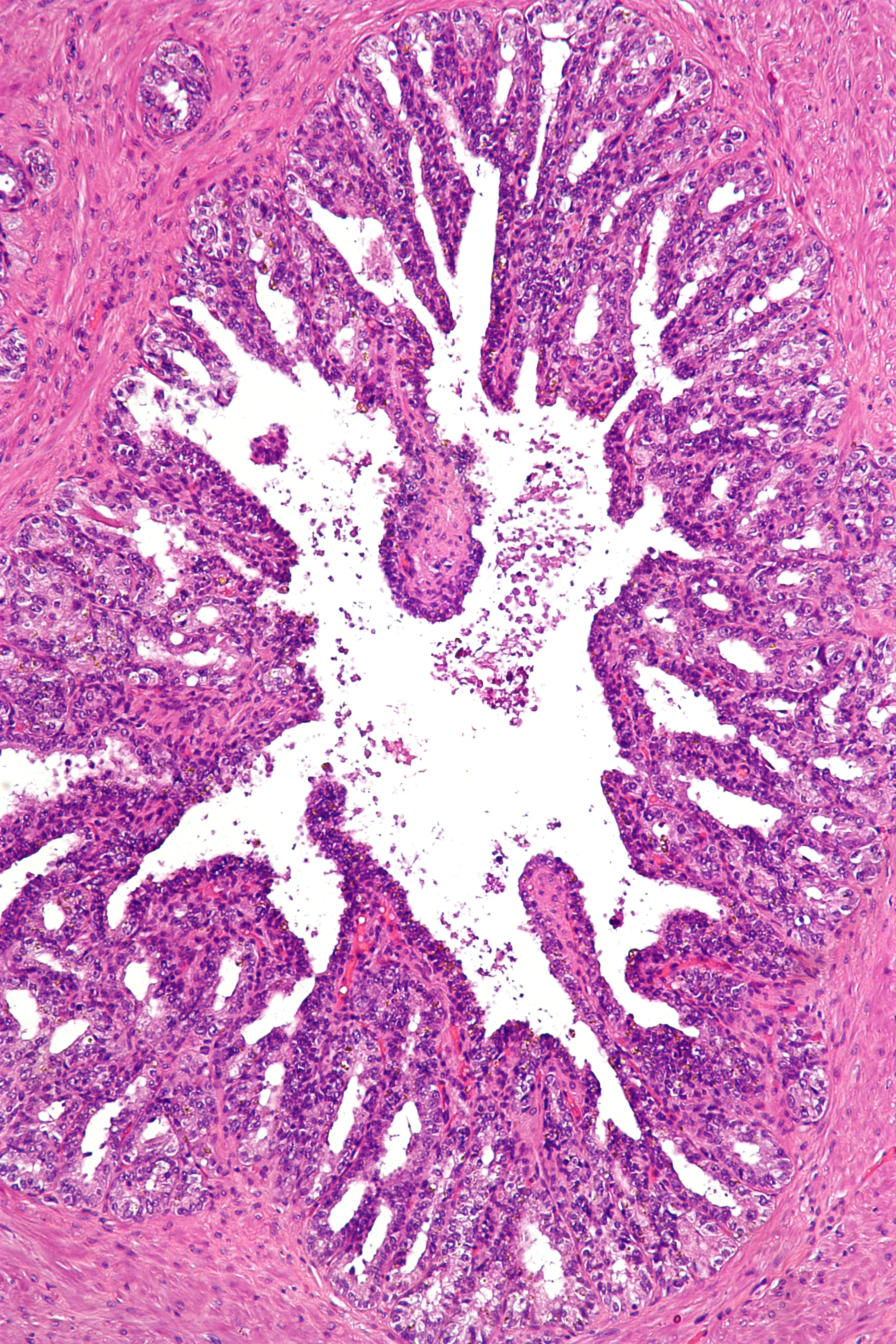 Low magnification micrograph of seminal vesicle. H&E stain. Prostatectomy specimen. The epithelium of seminal vesicle is the same as ejaculatory duct.[1] References ↑ Leroy X, Ballereau C, Villers A, et al. (April 2003). "MUC6 is a marker of seminal vesicle-ejaculatory duct epithelium and is useful for the differential diagnosis with prostate adenocarcinoma". Am. J. Surg. Pathol. 27 (4): 519–21. PMID 12657938. Related images Low mag. Intermed. mag. High mag.